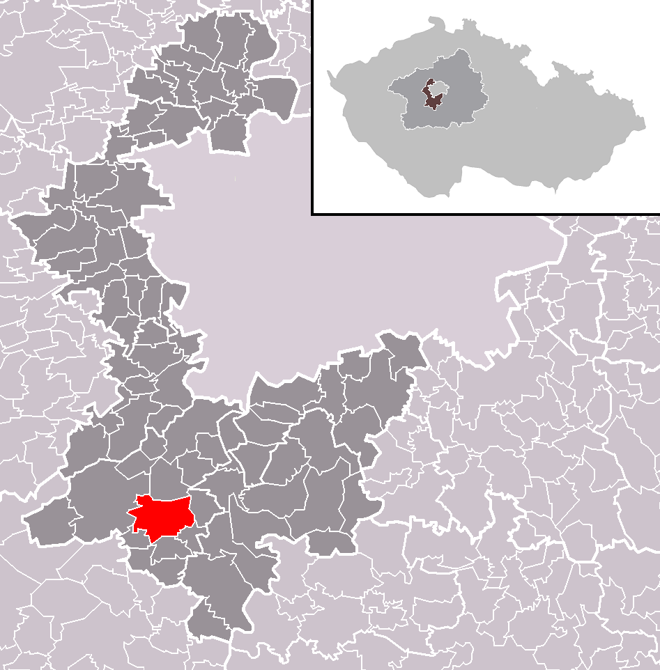 Location of Čisovice municipality within Prague-West District and administrative area of Černošice as a Municipality with Extended Competence.